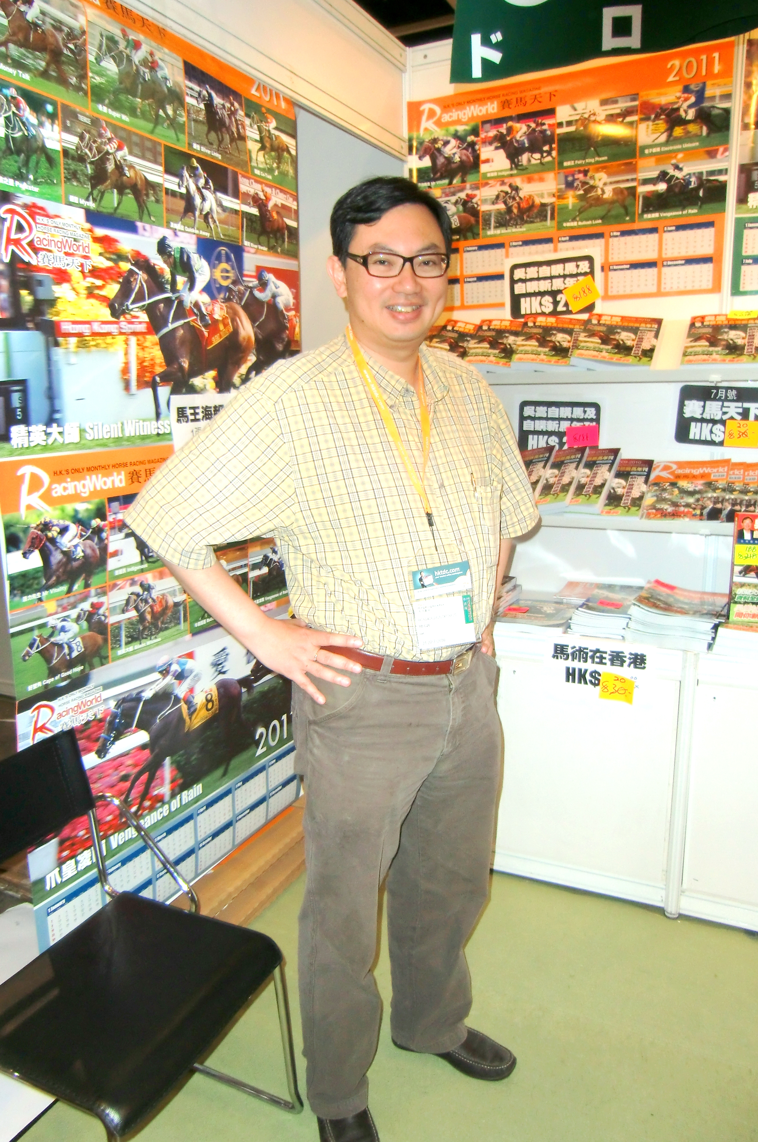 Apollo Ng is a famous race caller in Hong Kong 中文（香港）: 吳嵩，著名香港賽馬主持